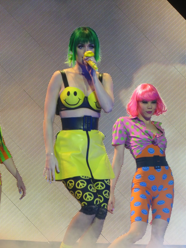 Katy Perry performing "Walking on Air", The Prismatic World Tour, Glasgow SSE Hydro 17 May 2014